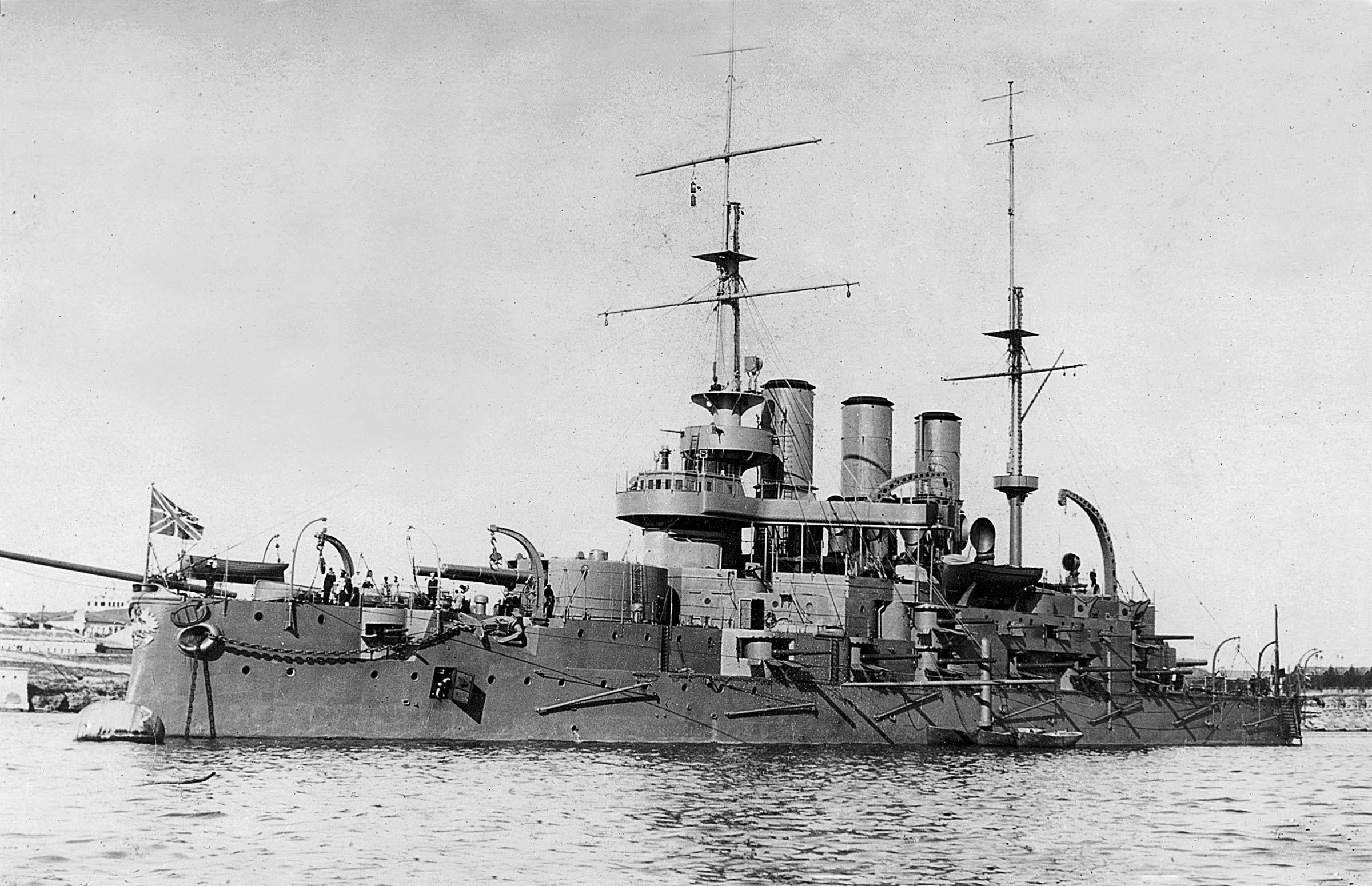 The Imperial Russian battleship Panteleimon, 1906-1910.